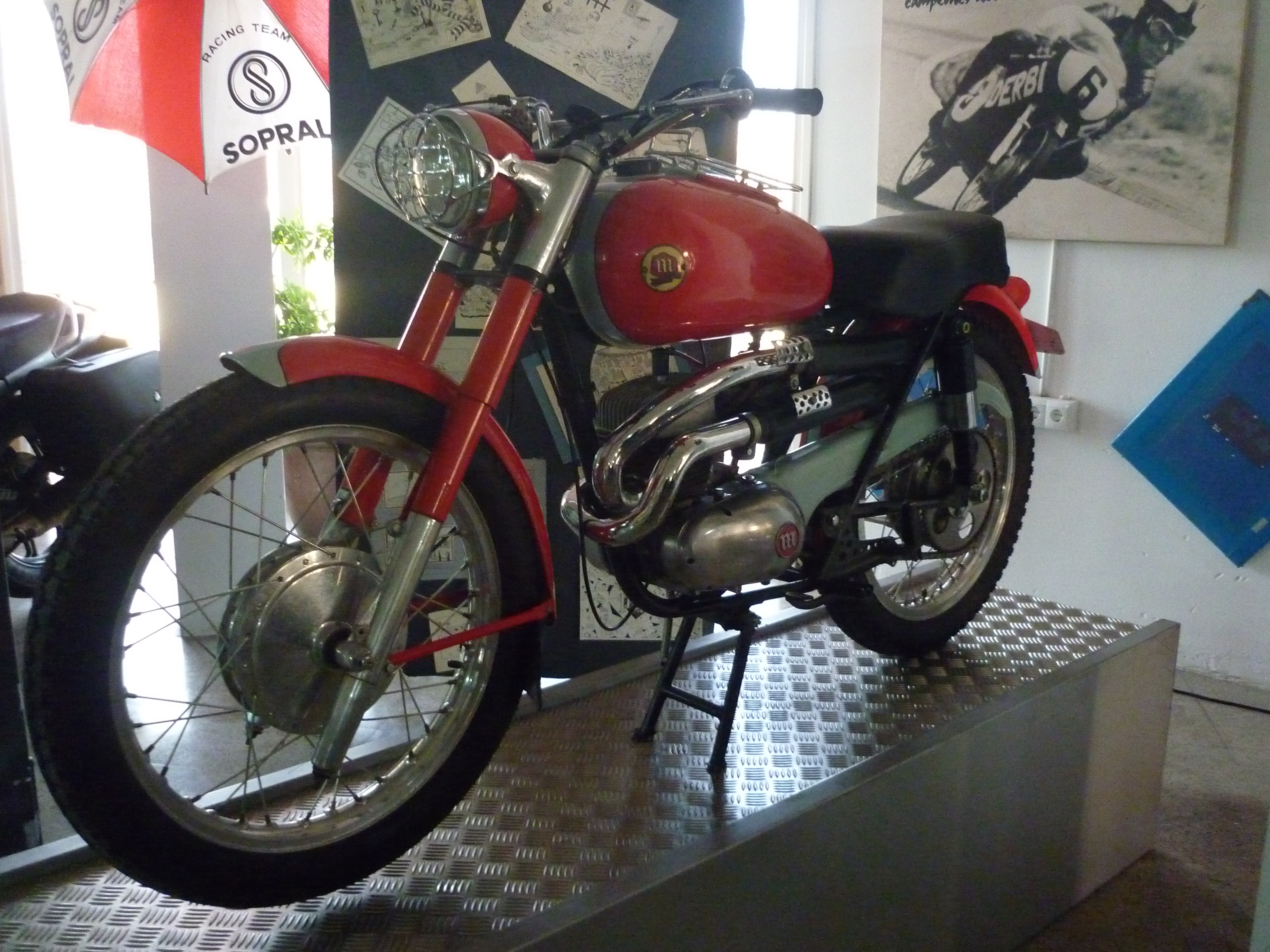 Montesa Brio "Cabra" 125cc circa 1957. Reproduction of the original made ​​by Jordi Fornas in 2013.